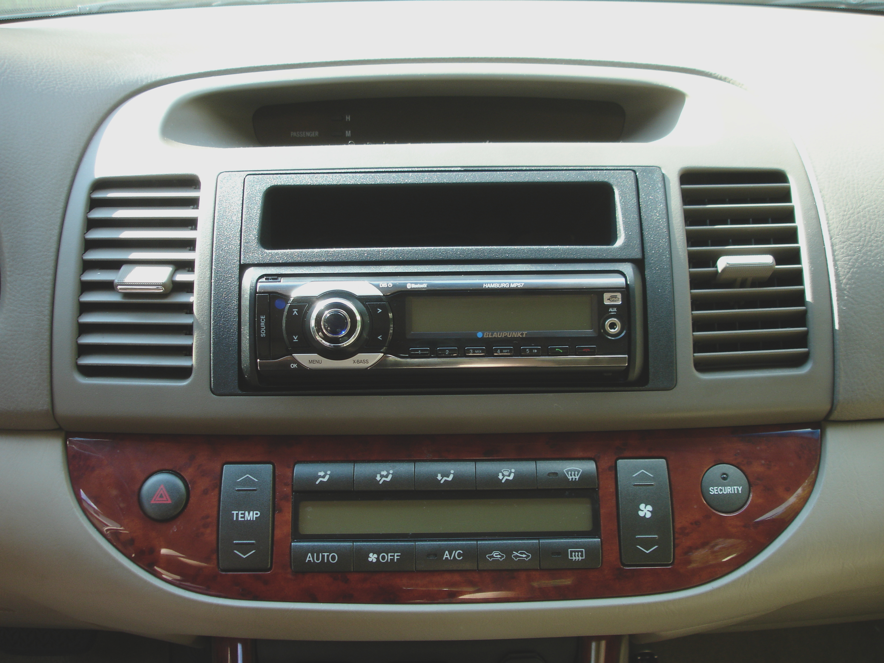 Sixth generation Toyota Camry dashboard with single DIN aftermarket head unit by Blaupunkt and spacer pocket installed.